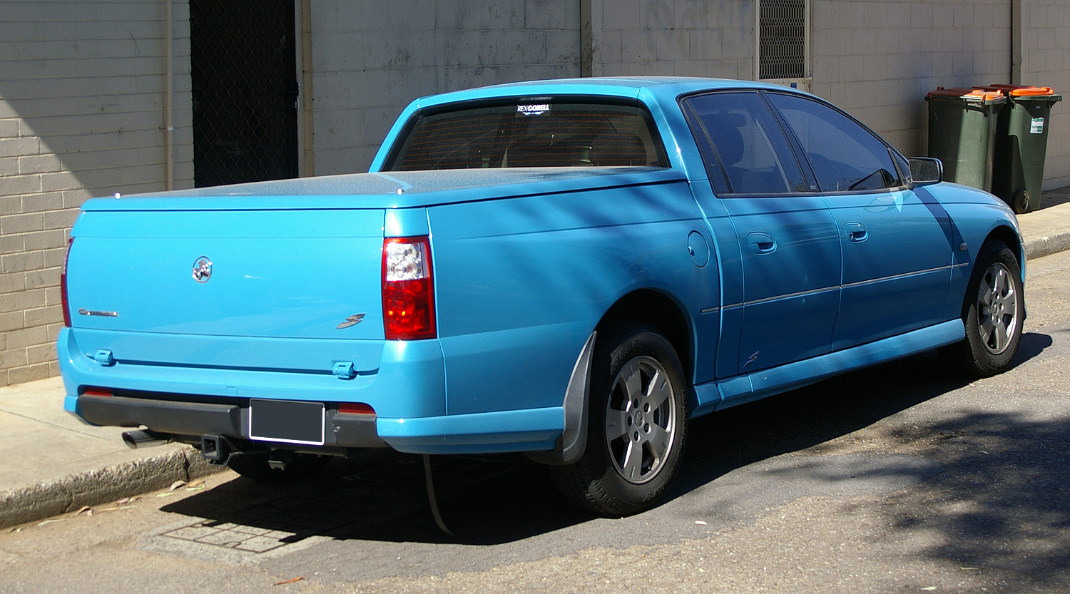 2004–2007 Holden VZ Crewman S utility, photographed in New South Wales, Australia.